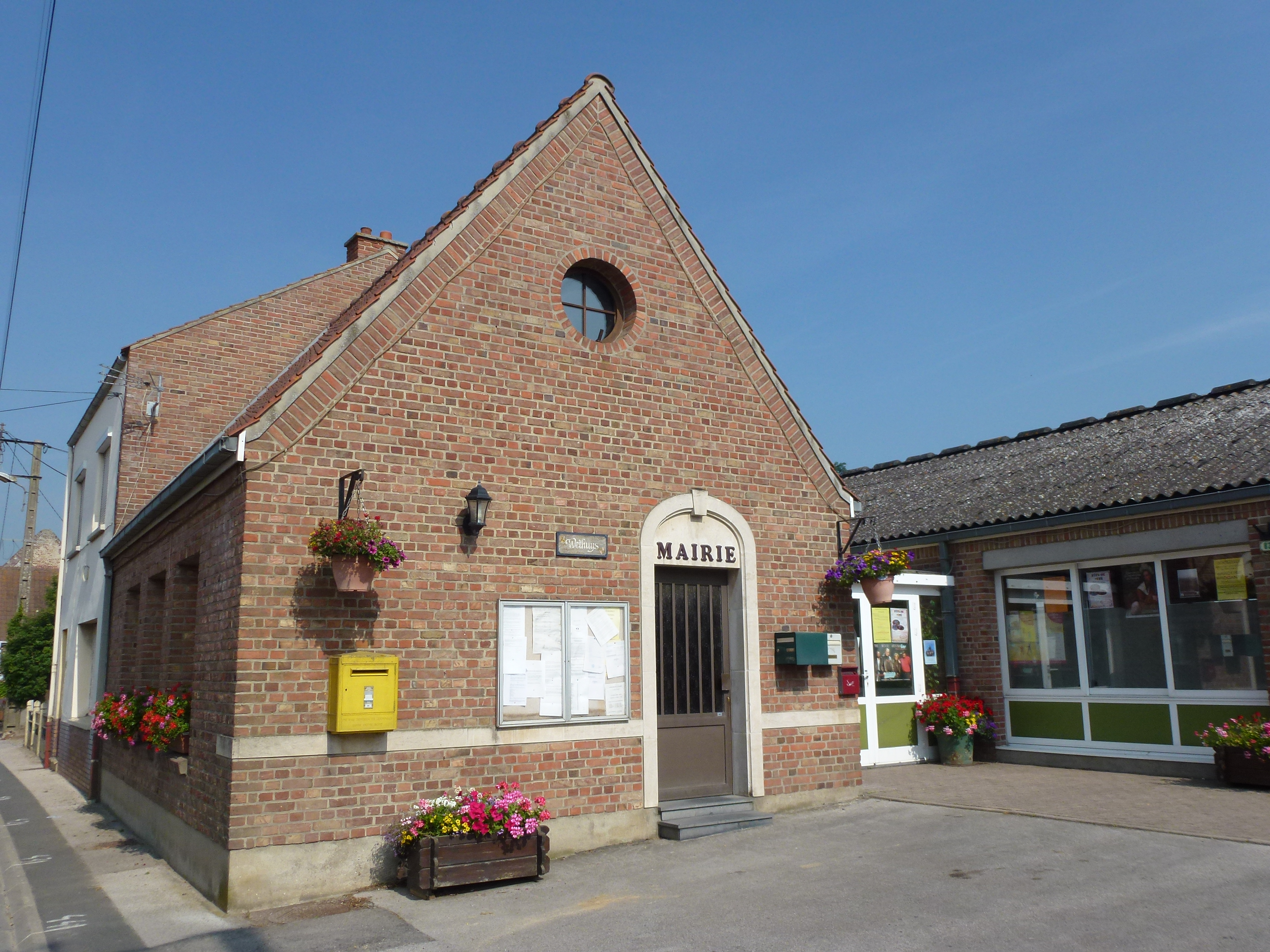 Wemaers-Cappel (Nord, Fr) mairie